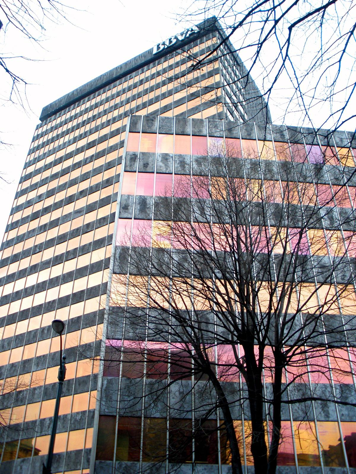 Torre (antigua sede) del Banco de Vizcaya, hoy BBVA. Bilbao, País Vasco, España